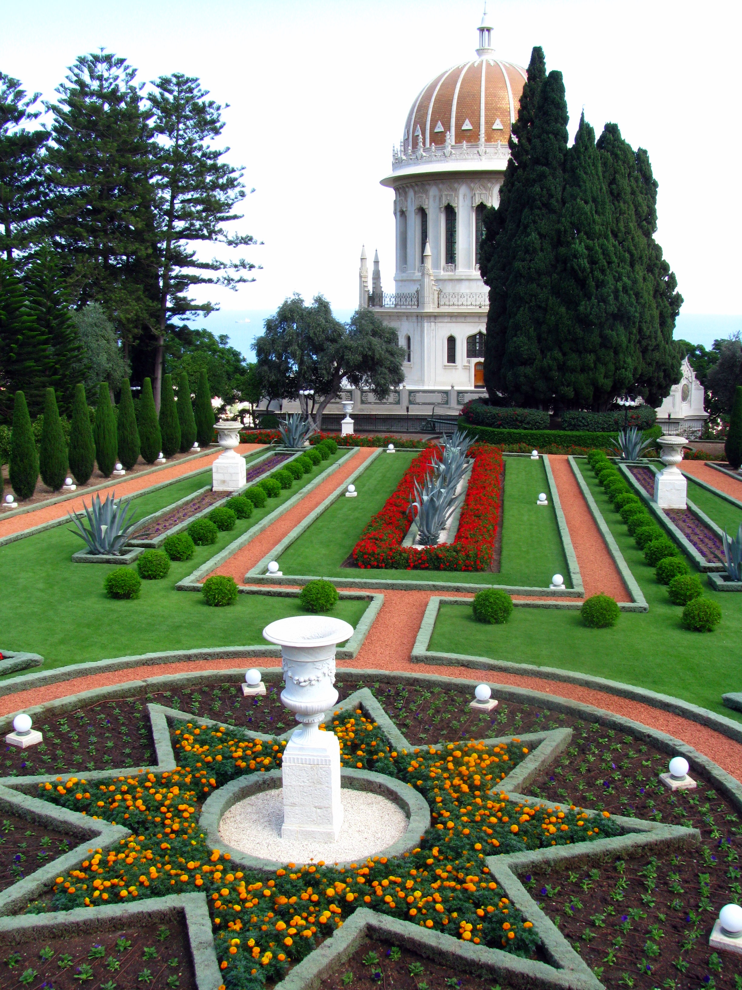 Shrine of the Báb and gardens, Haifa